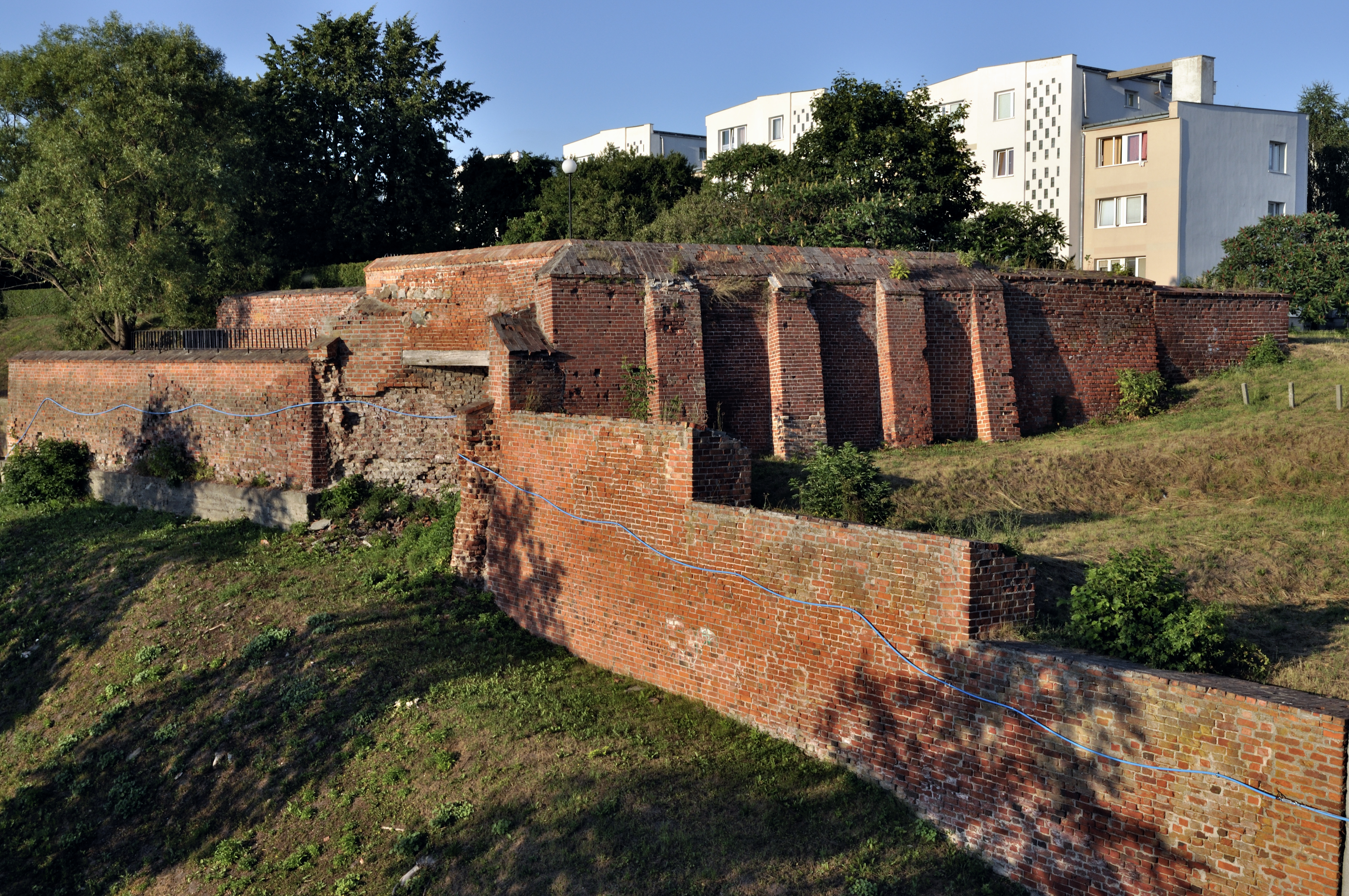 Picture taken in Malbork after Wikimania 2010 conference.